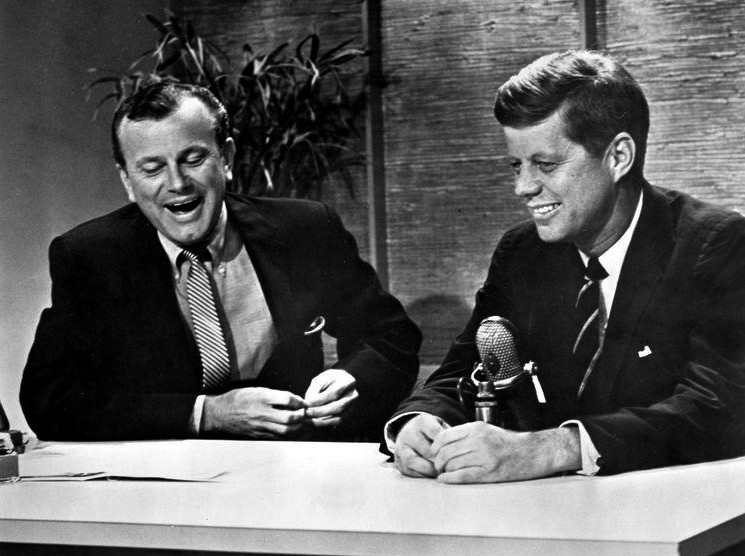 Photo of television host Jack Paar and John F. Kennedy as a Senator and Presidential candidate when he appeared on The Tonight Show in 1959. Jack Paar, who was then the "Tonight Show" host, presented an ABC Special, ABC Stage 67: The Kennedy Wit, in 1966.